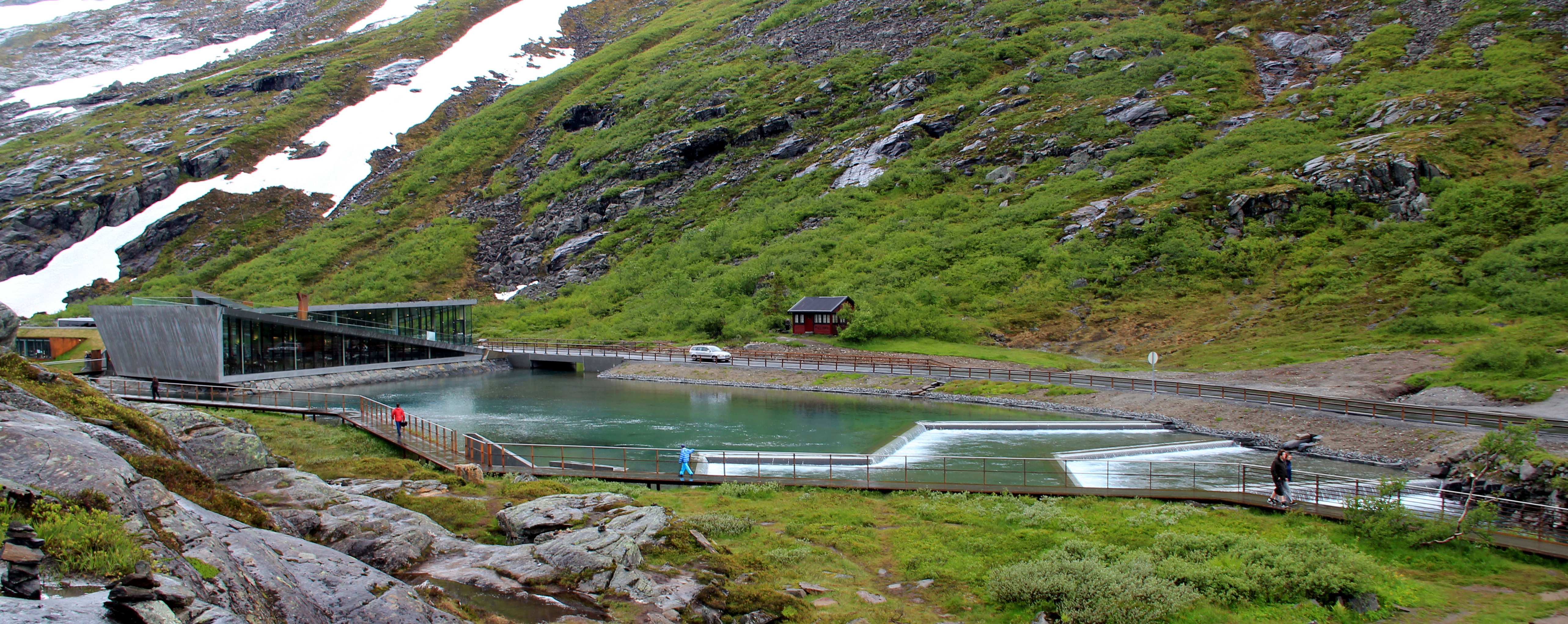 Visitor center at Trollstigen, Norway